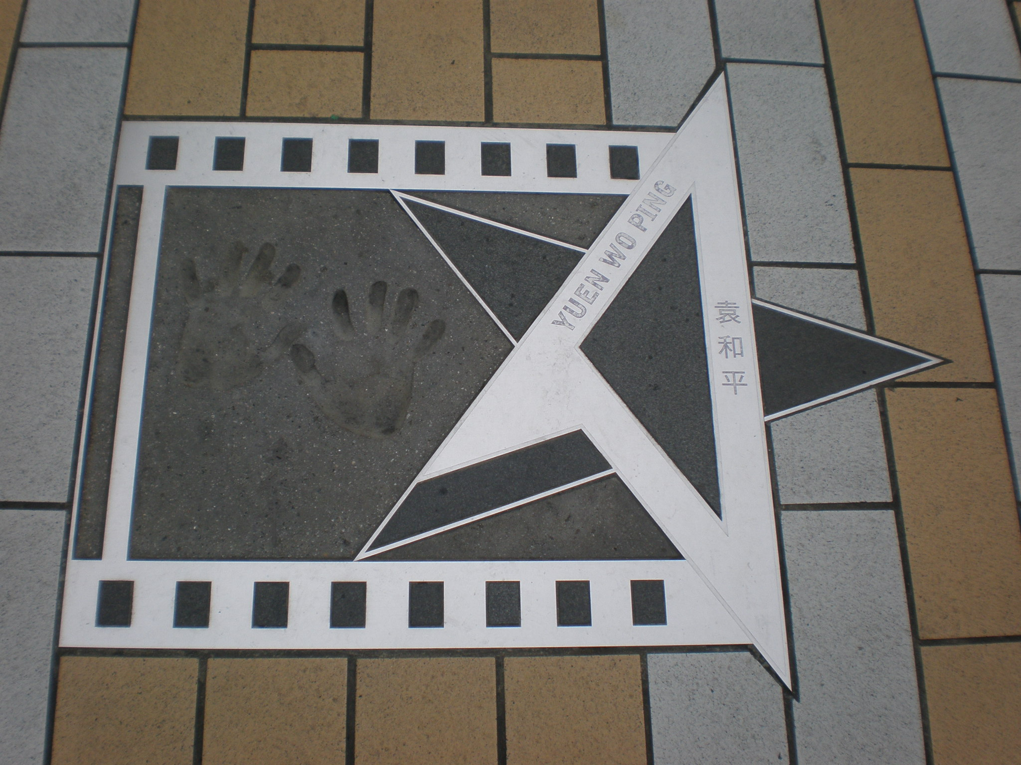 Star and hand prints of Yuen Wo Ping on the Avenue of Stars in Hong Kong.